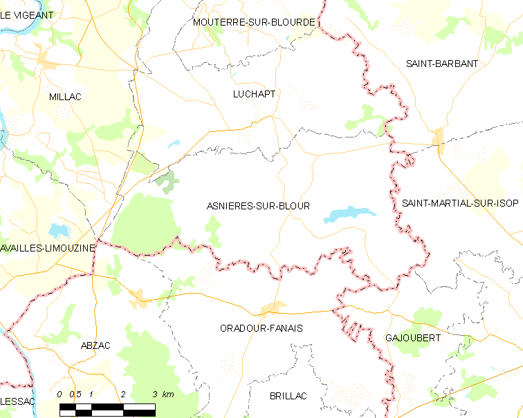 Map of French municipality Asnières-sur-Blour